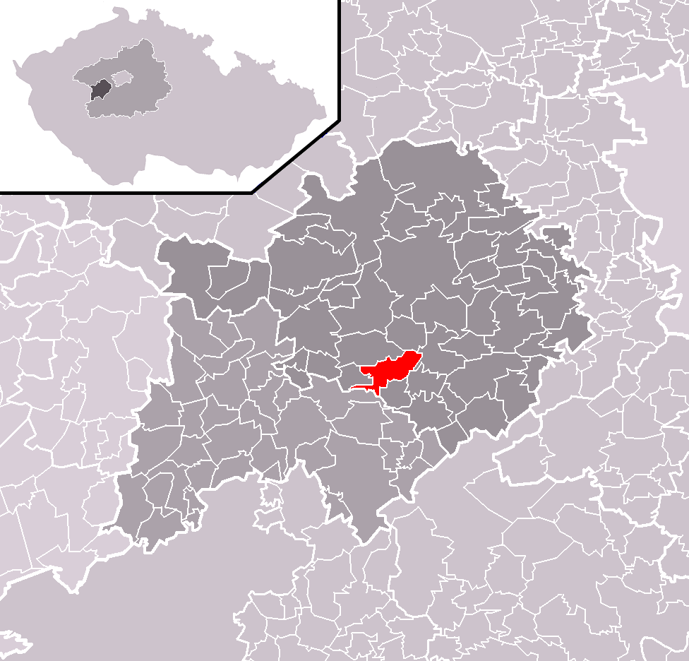 Location of Suchomasty municipality within Beroun District and administrative area of Beroun as a Municipality with Extended Competence.